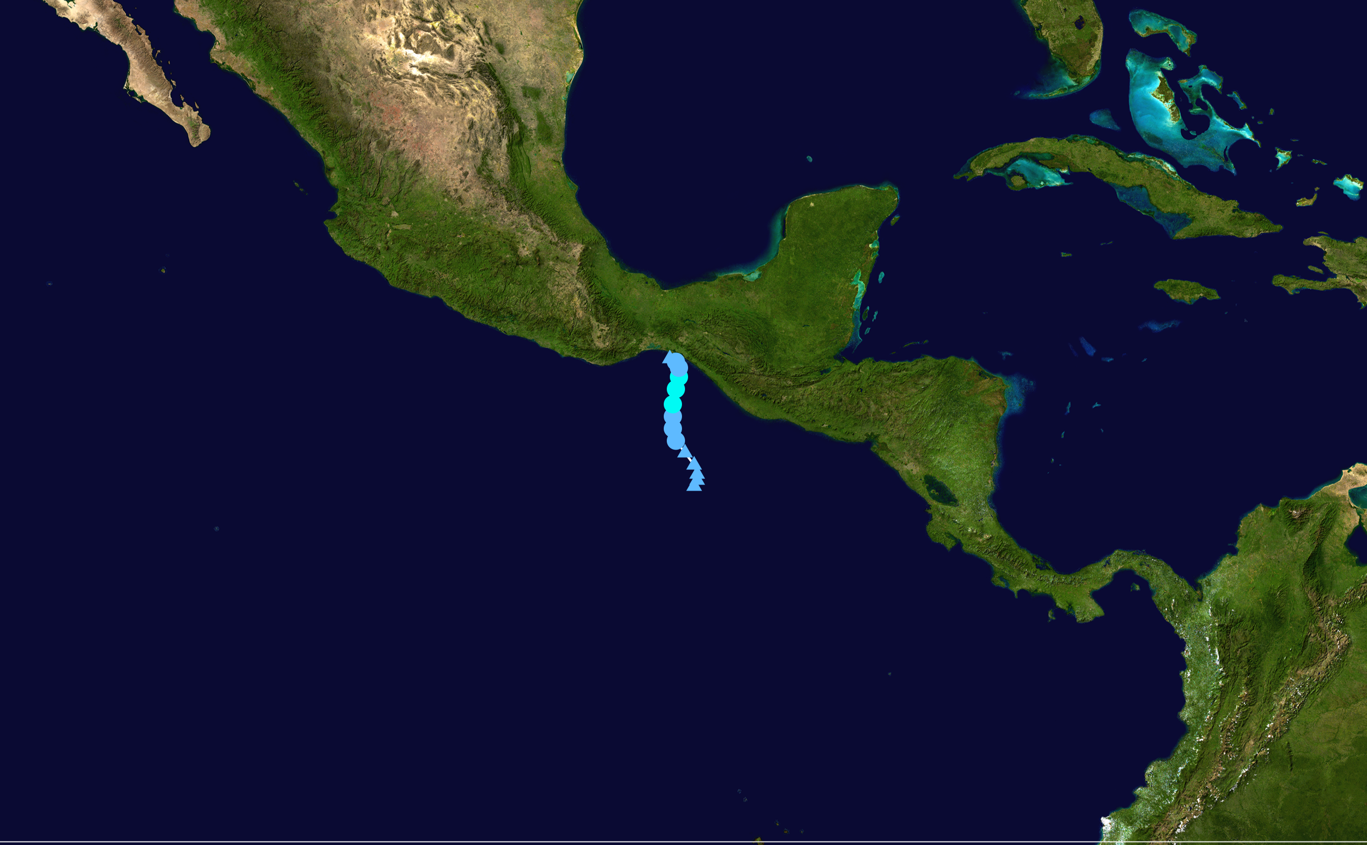 Track map of Tropical Storm Boris of the 2014 Pacific hurricane season. The points show the location of the storm at 6-hour intervals. The colour represents the storm's maximum sustained wind speeds as classified in the Saffir–Simpson scale (see below), and the shape of the data points represent the nature of the storm, according to the legend below. Saffir–Simpson scale Tropical depression≤38 mph≤62 km/h Category 3111–129 mph178–208 km/h Tropical storm39–73 mph63–118 km/h Category 4130–156 mph209–251 km/h Category 174–95 mph119–153 km/h Category 5≥157 mph≥252 km/h Category 296–110 mph154–177 km/h Unknown Storm type Tropical cyclone Subtropical cyclone Extratropical cyclone / Remnant low / Tropical disturbance / Monsoon depression